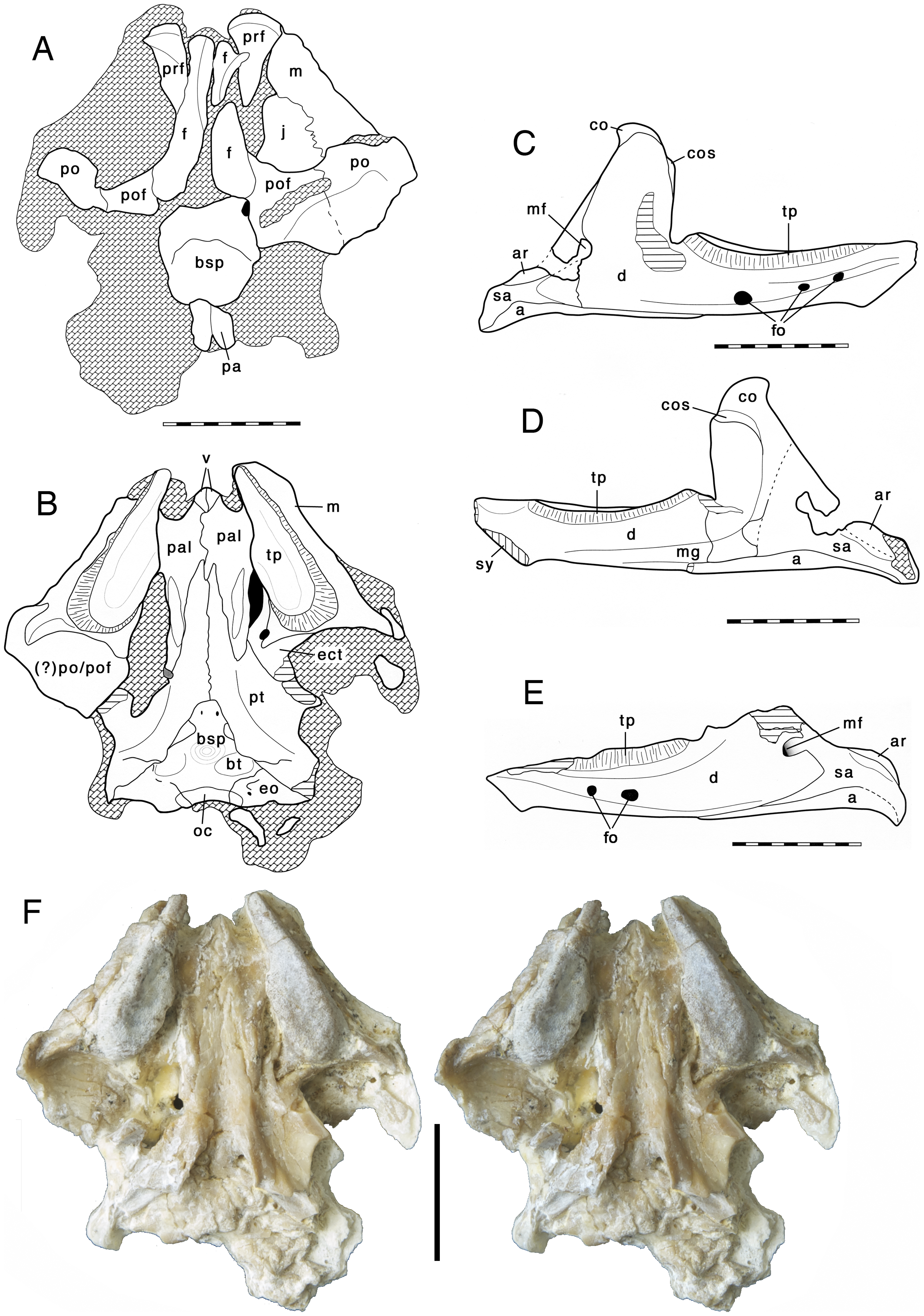 New Late Jurassic sphenodontine rhynchocephalian Oenosaurus muehlheimensis (Holotype, BSPG 2009 I 23). (A)–Skull in dorsal view. (B)–Skull in ventral view. (C–D)–Right mandible in lateral (C) and medial (D) views. (E)–Left mandible in lateral view. (F)–Stereophotographs of the skull in ventral view. Abbreviations: a, angular; ar, articular; bsp, basisphenoid; bt, basal tubera; co, coronoid; cos, coronoid shelf; d, dentary; ect, ectopterygoid; eo, exoccipital/opisthotic; f, frontal; fo, foramen; j, jugal; m, maxilla; mf, mandibular foramen; mg, Meckelian groove; oc, occipital condyle; pa, parietal; pal, palatine; po, postorbital; pof, postfrontal; prf, prefrontal; pt, pterygoid; sa, surangular; sy, symphysis; tp, tooth plate. Scale bars are 10 mm.